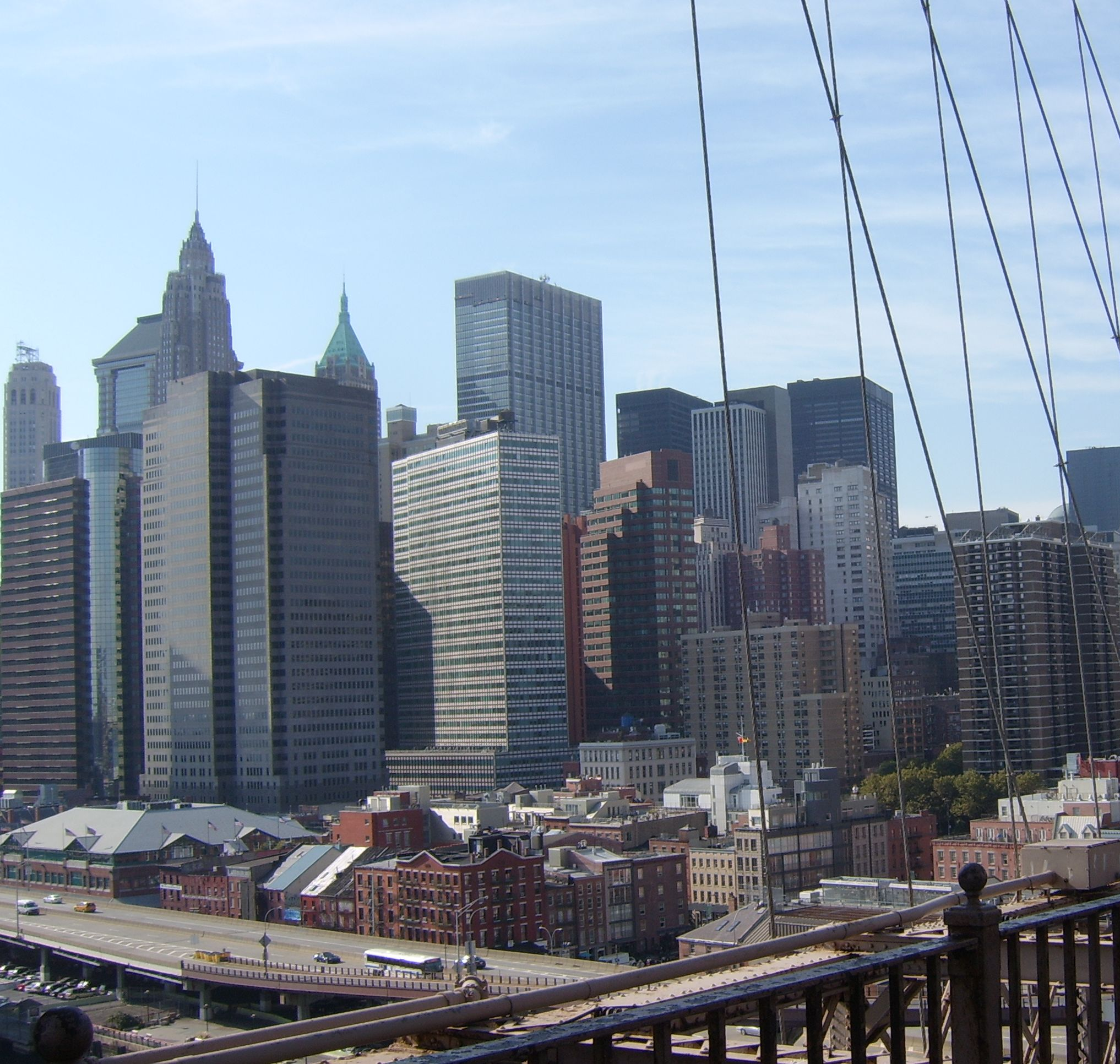 Category:Manhattan, New York City